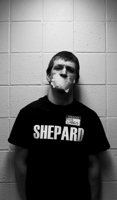 Day of Silence 2007